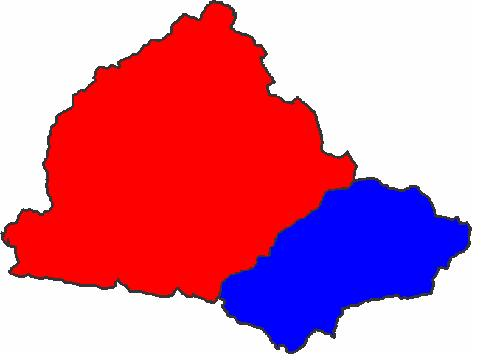 Privor